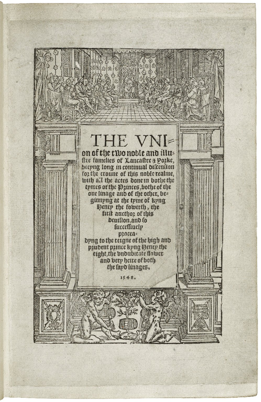 The title page from the 1550 edition of Edward Hall's The The vnyon of the twoo noble and illustre famelies of Lancastre & Yorke